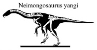 Skeletal reconstruction of Neimongosaurus yangi.